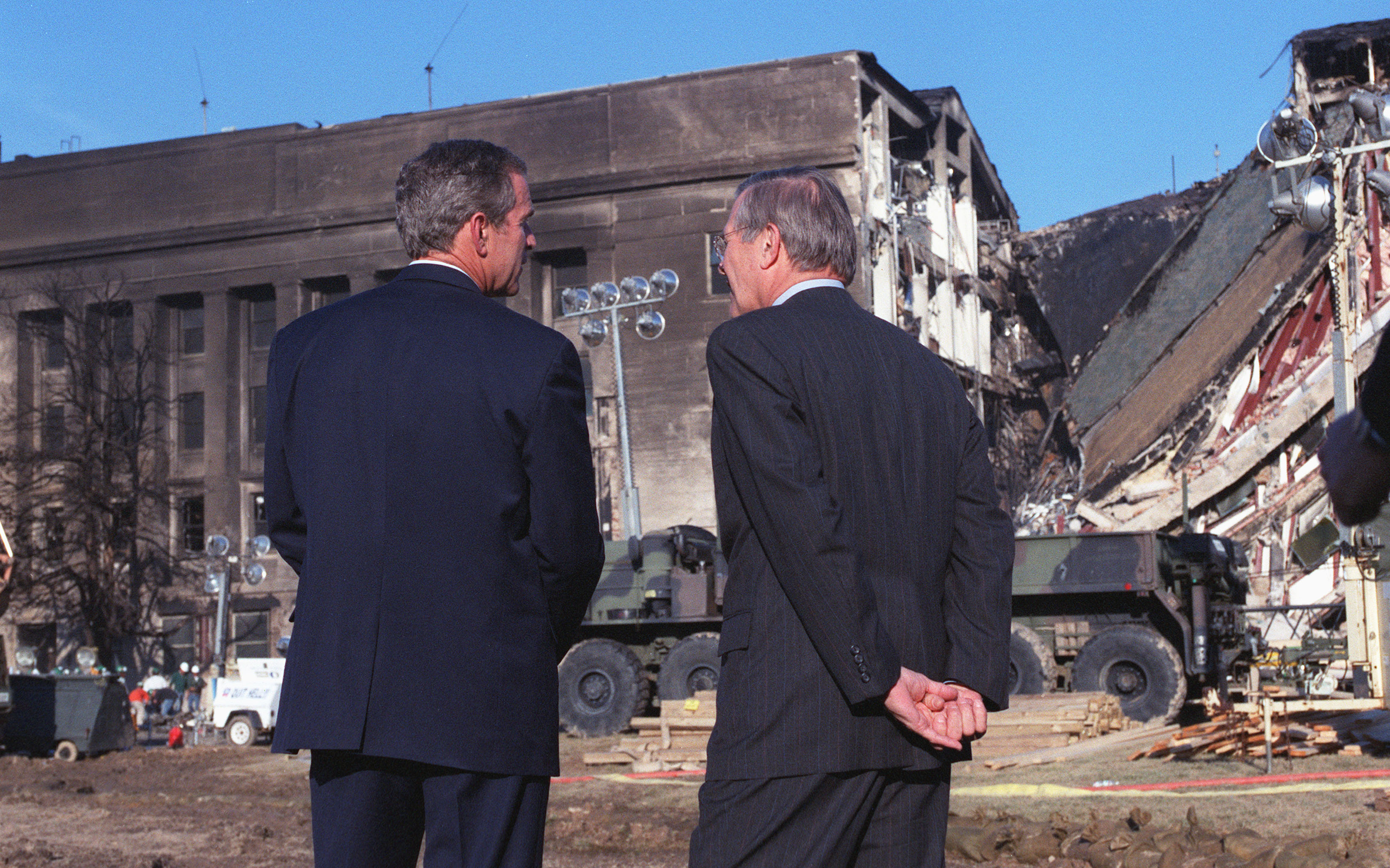 President George W. Bush (left), and by Secretary of Defense Donald H. Rumsfeld (right) look over the scene of destruction at the Pentagon on Sept. 12, 2001. On the morning of Sept. 11, an American Airlines flight was hijacked and deliberately crashed into the headquarters of the Department of Defense. The mid-portion of the western face of the Pentagon took the full brunt of the passenger jet.